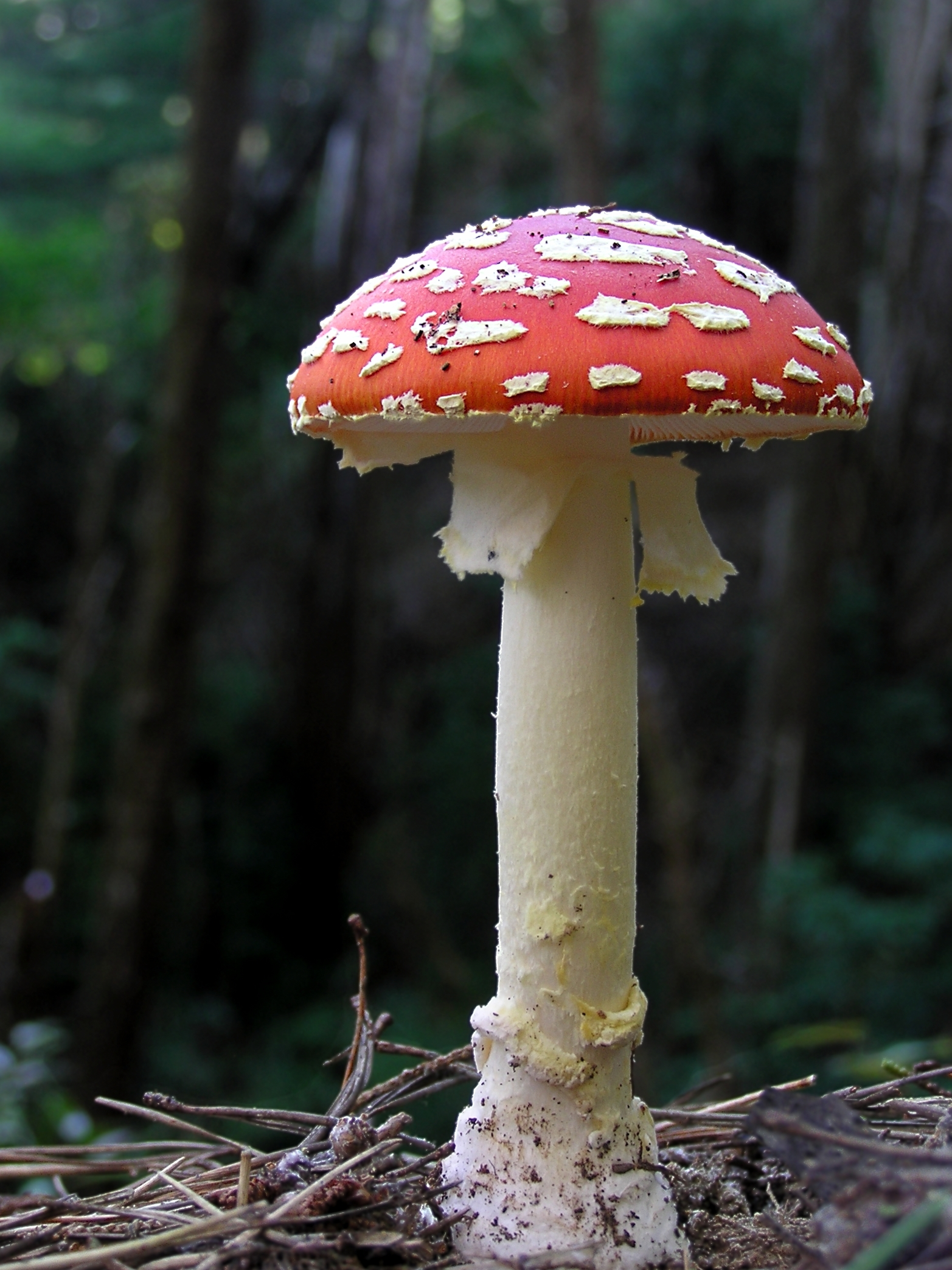 Fly Agaric mushroom growing under a stand of Pinus radiata trees, Wellington, New Zealand.